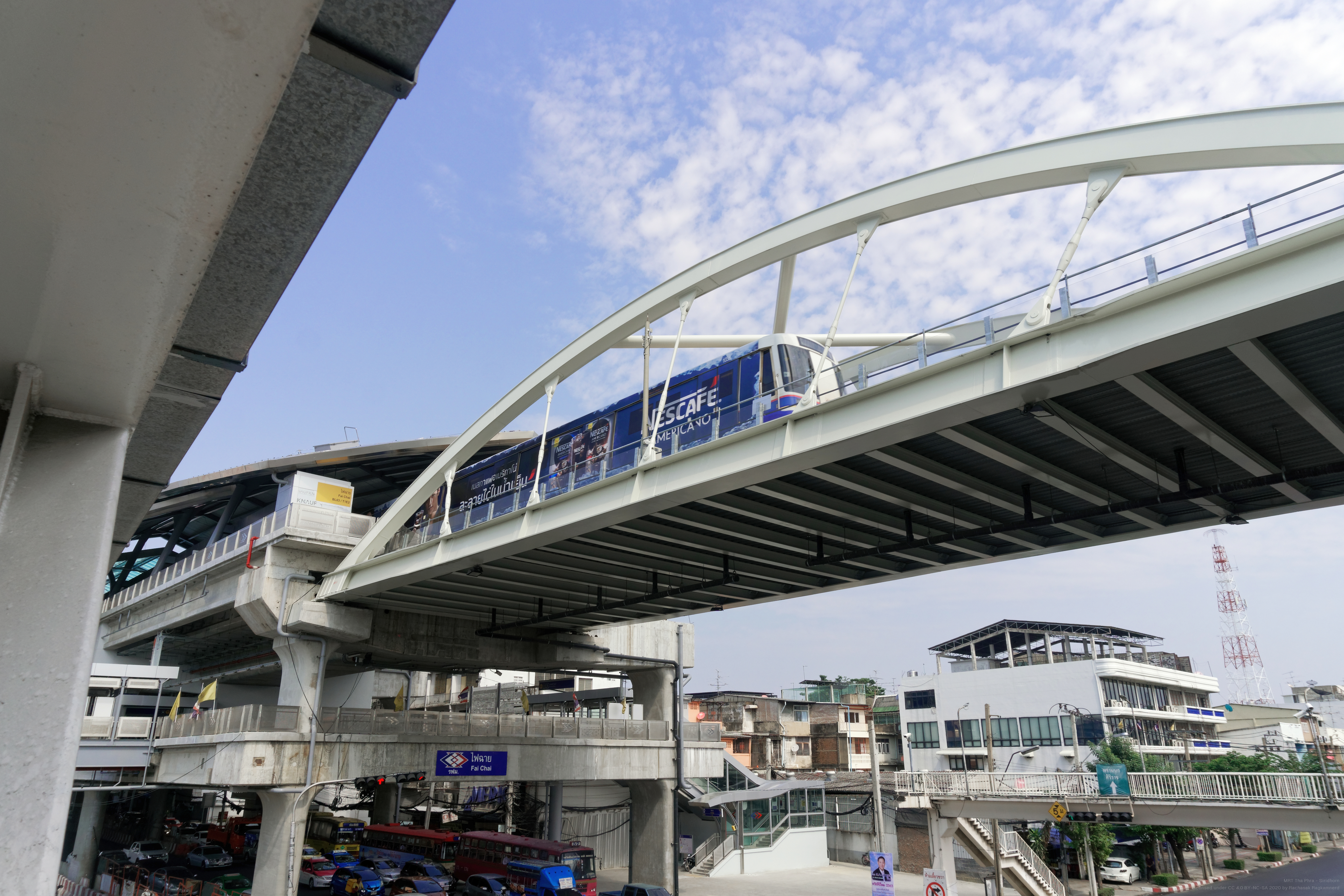 MRT Fai Chai – bowstring bridge – train crossing from Charan 13 station